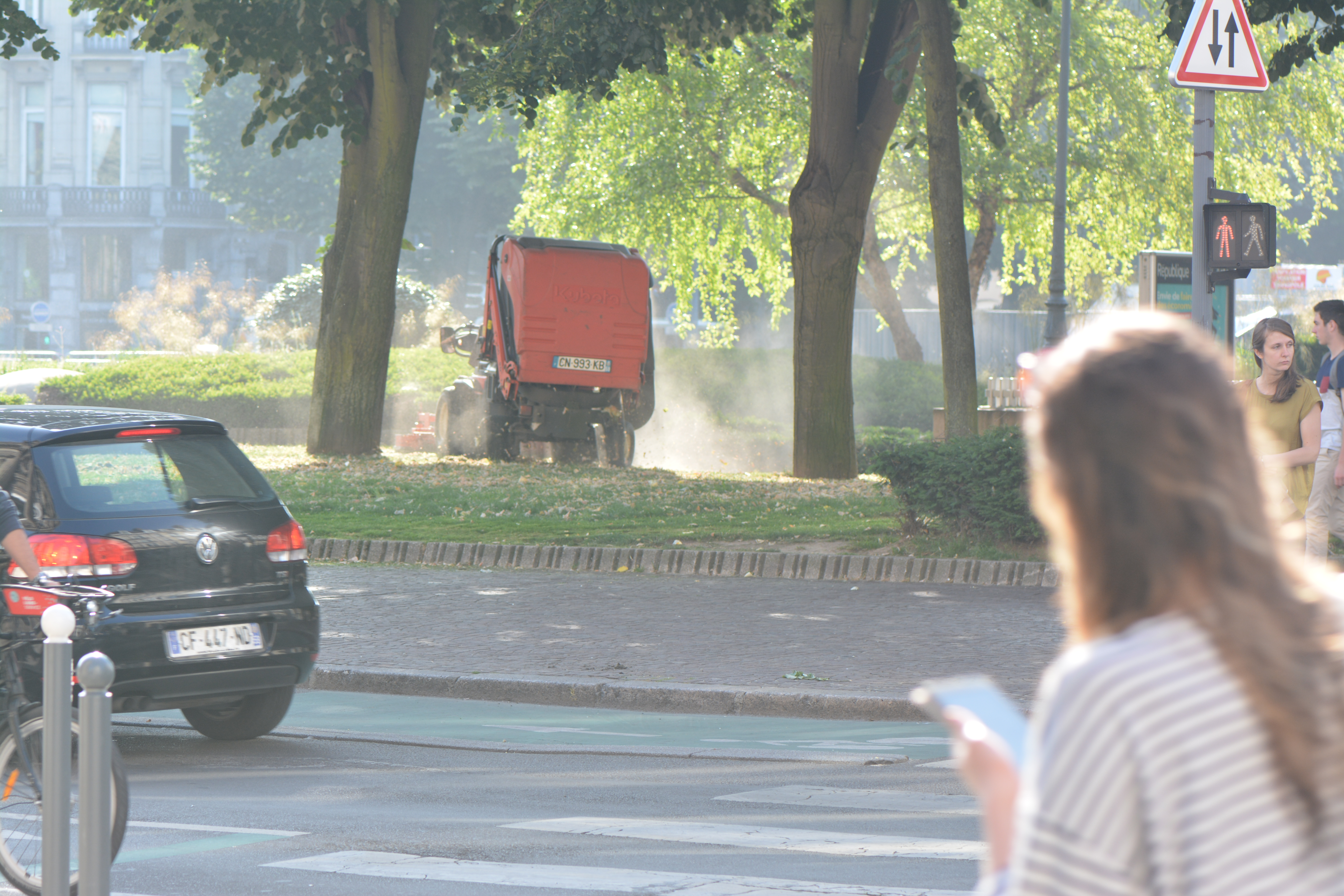 Dust cloud during mowing by motorized vehicle in a city center, near a metro exit (Lille, France) during dry periods (June 2017)